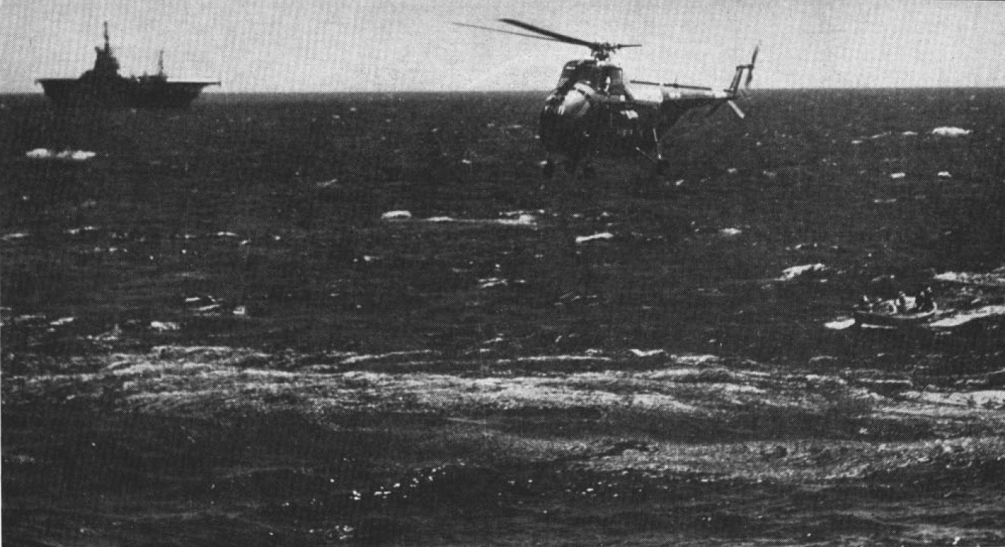 A U.S. Navy Sikorsky HO4S hovers over a mailbag, waiting for an approaching whaleboat to retrieve it. Both were from the aircraft carrier USS Boxer (CVS-21) which responded to a distress call of a U.S. Air Force Douglas C-124C Globemaster II (s/n 50-107) which experienced engine trouble during a flight from Hawaii (USA) to Wake Island. The plane crashed 320 km north-east off Johnston Island. Twelve hours later, the HO4S from Boxer could rescue three men of the crew of seven. The airmen had been clinging to a wooden box.